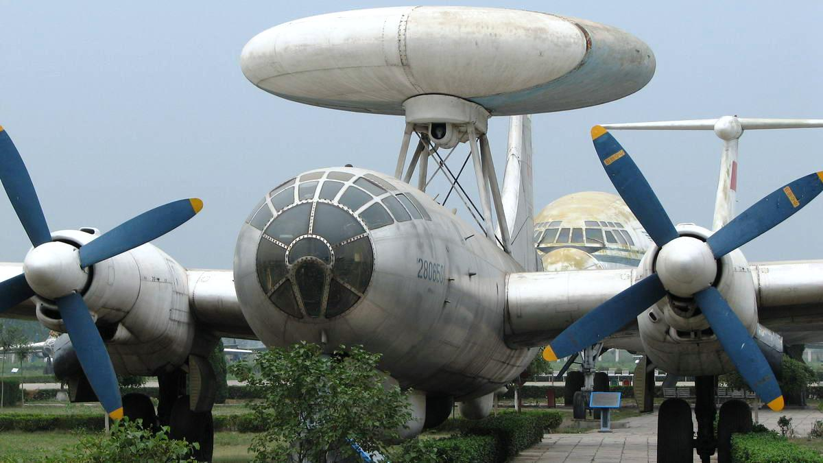 China Aviation Museum, Tupolev Tu-4.